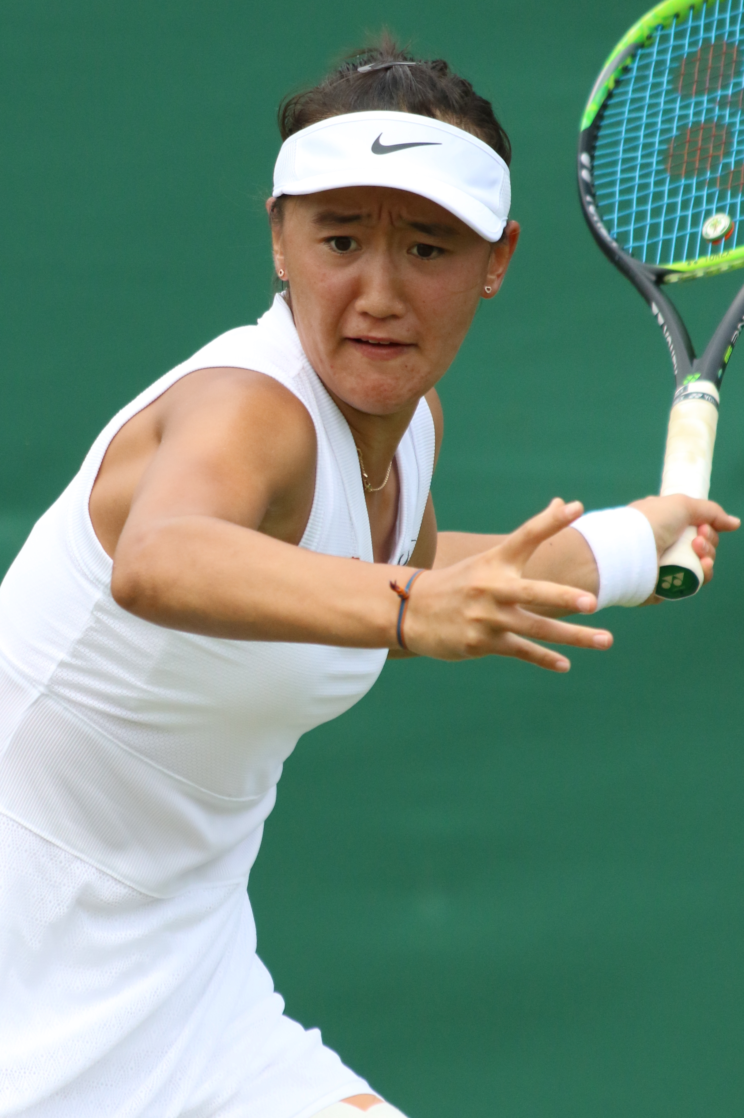 2019 Wimbledon Qualifying Tournament.